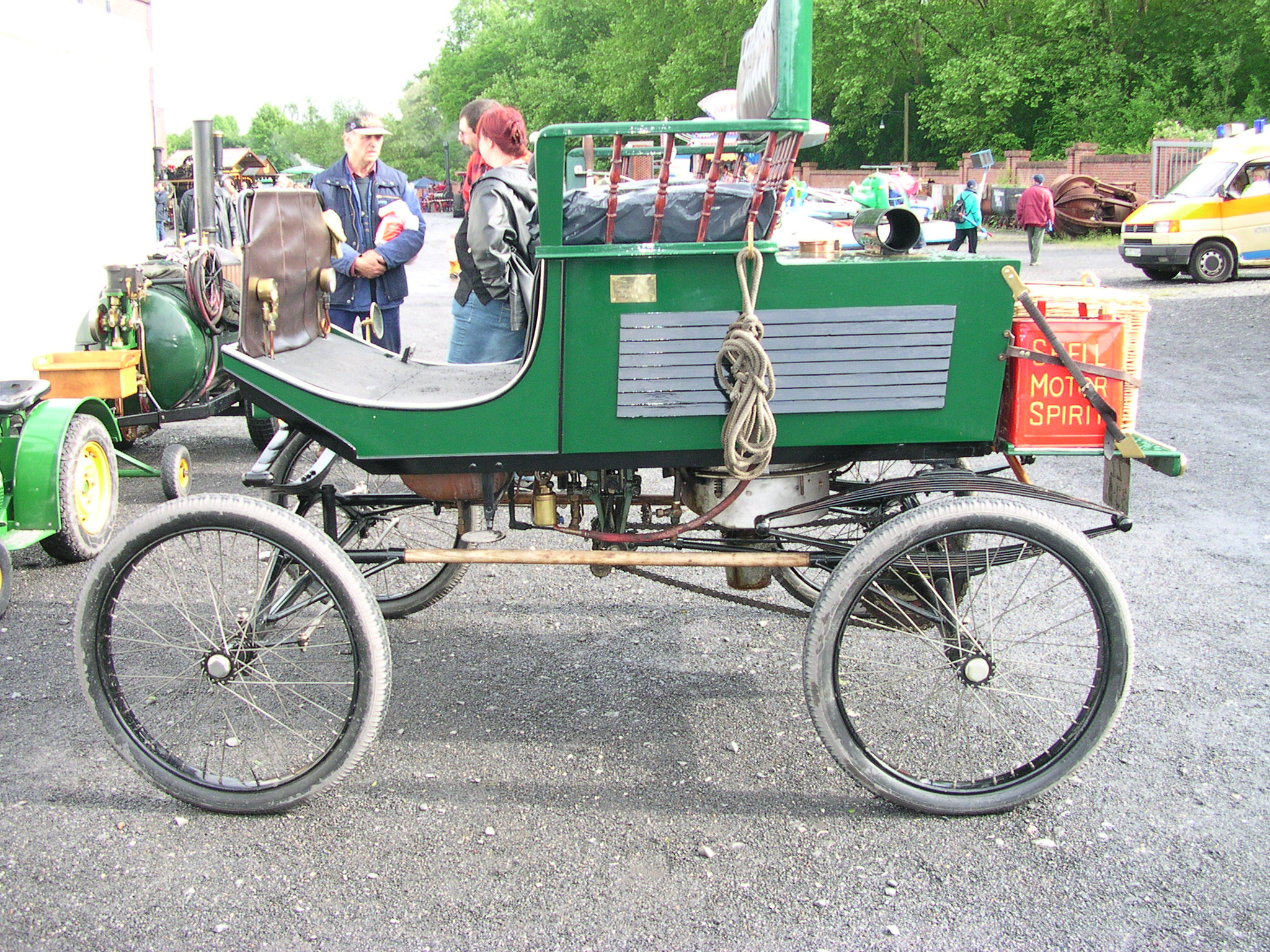 5th steam festival in Bochum, Germany 2007. Locomobile (Bridgeport) steam car